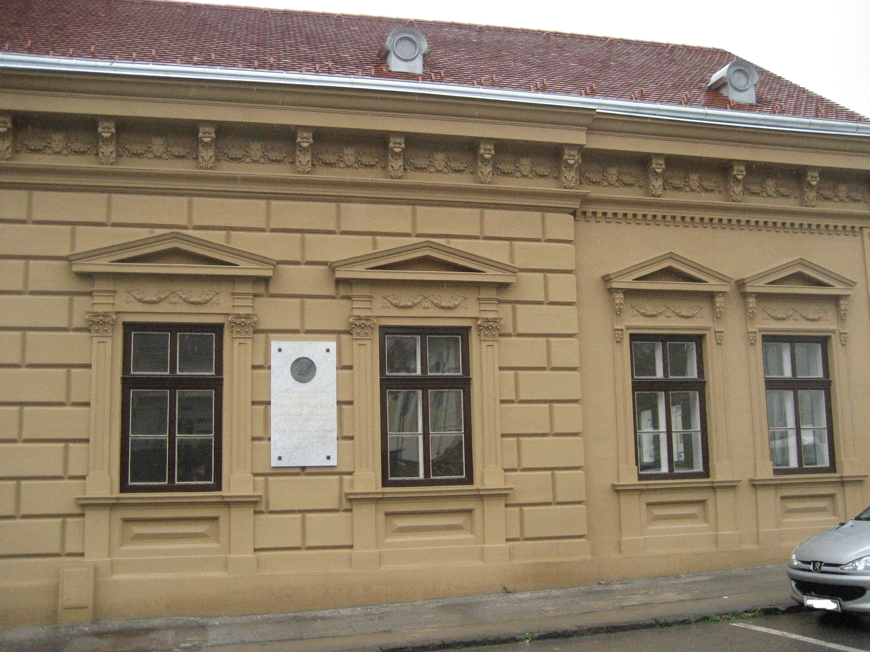 House in Vukovar, Croatia where Lavoslav Ruzicka was born